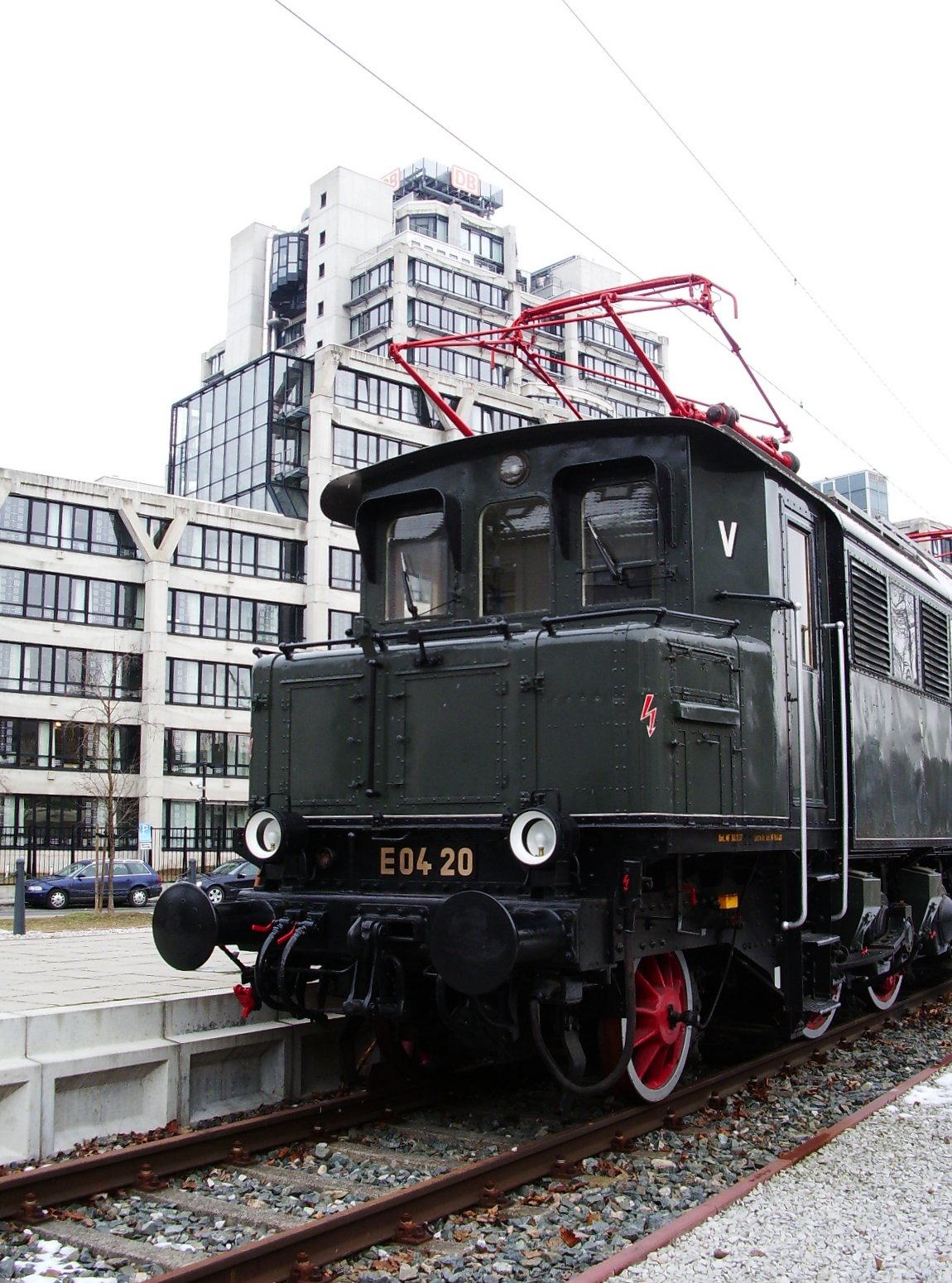 Headquarters of Deutsche Bahn AG at Frankfurt am Main with electric engine E 04 20 on display.